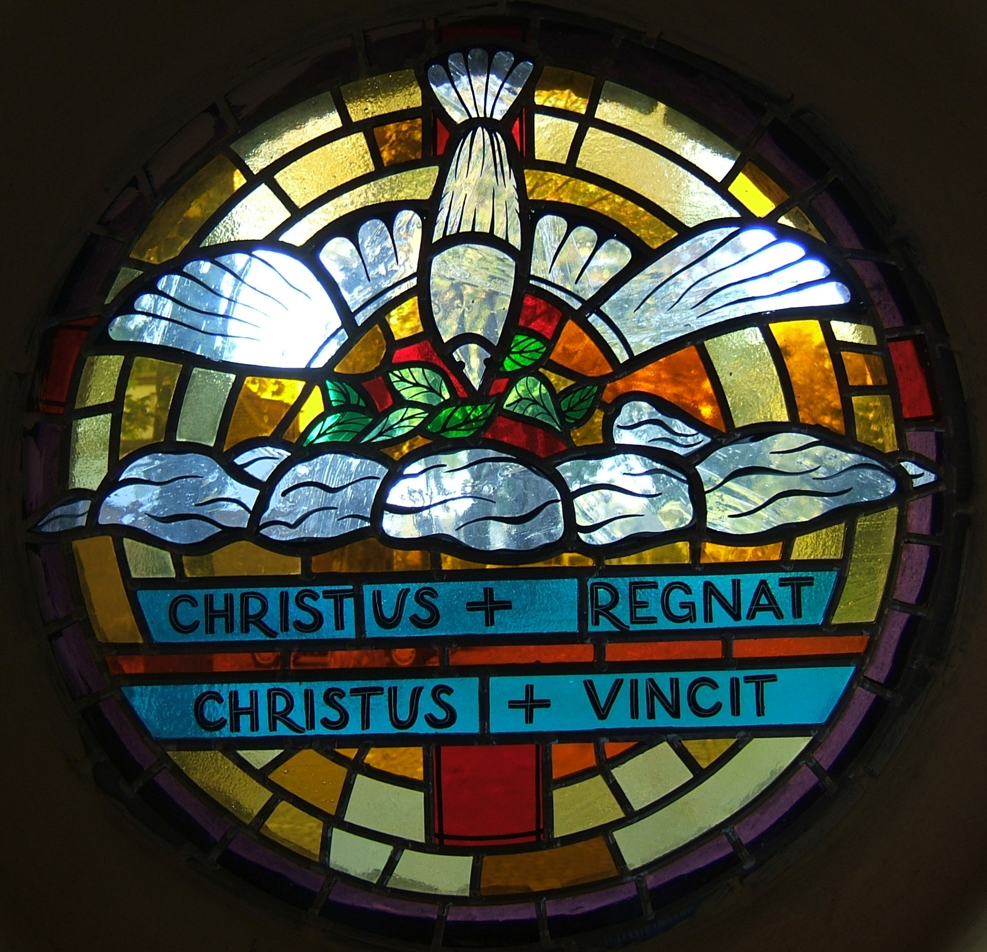 Stained glass window in a chapel beside Saint Joseph's Church in Zabrze.